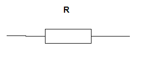 Resistor